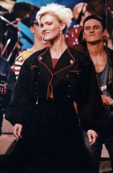 Marie Fredriksson of Roxette at the July 17 to August 12, 1987 "Rock Runt Riket" Swedish concert tour in Gävle.